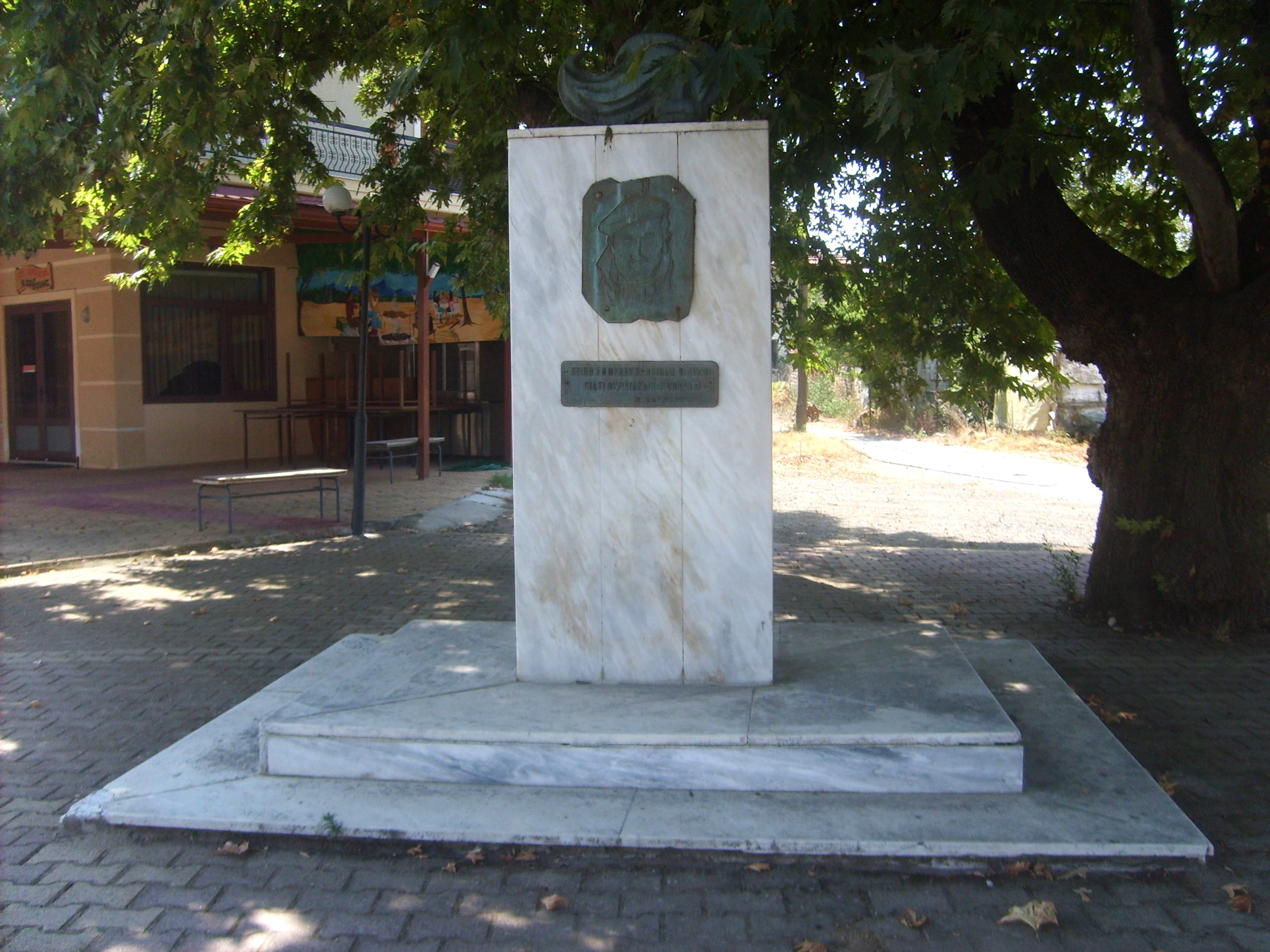 Monument for Menelaos Loundemis, Exaplatanos, Almopia, Greece